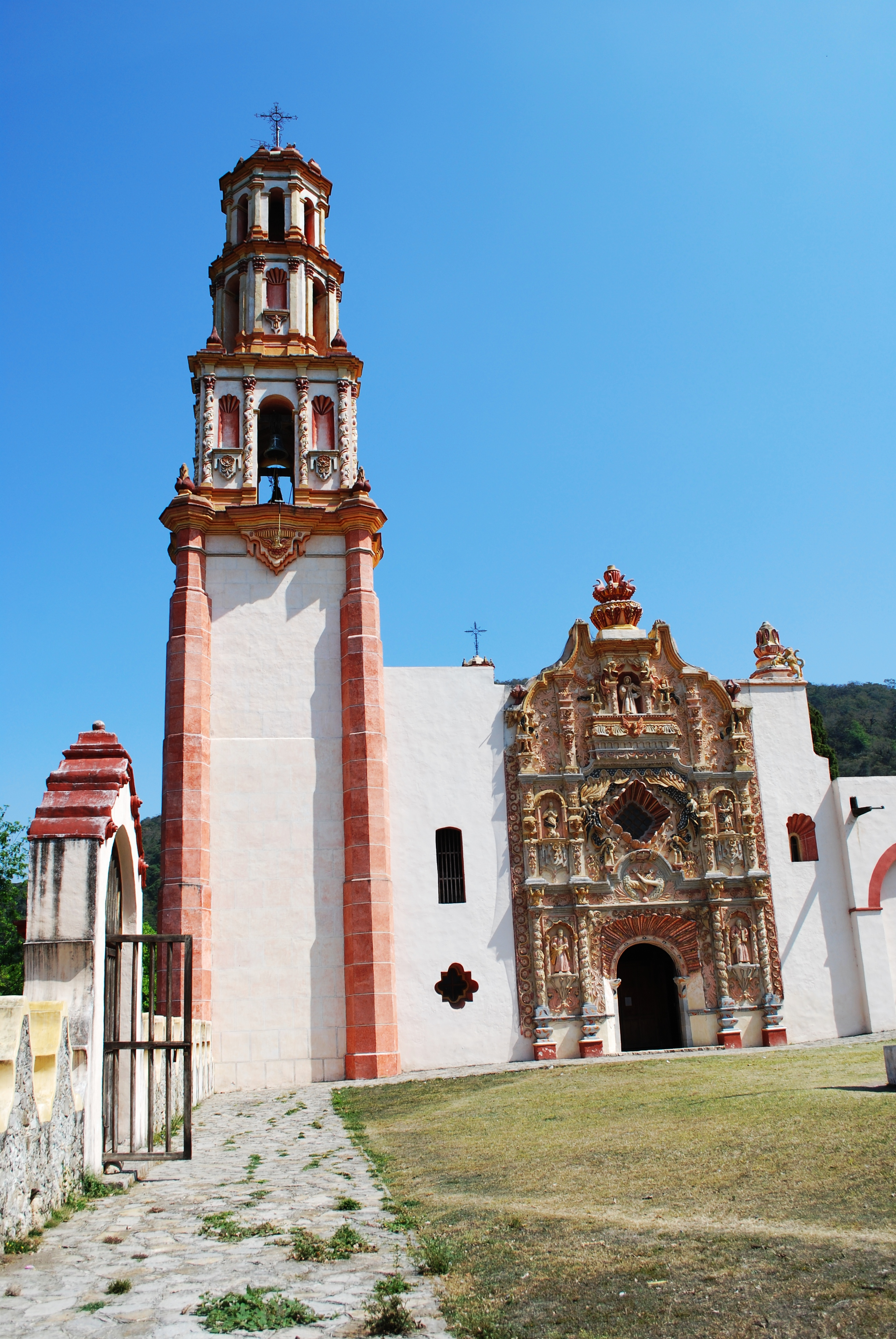 Facade of the mission church in Tilaco, Landa de Matamoros, Querétaro, Mexico